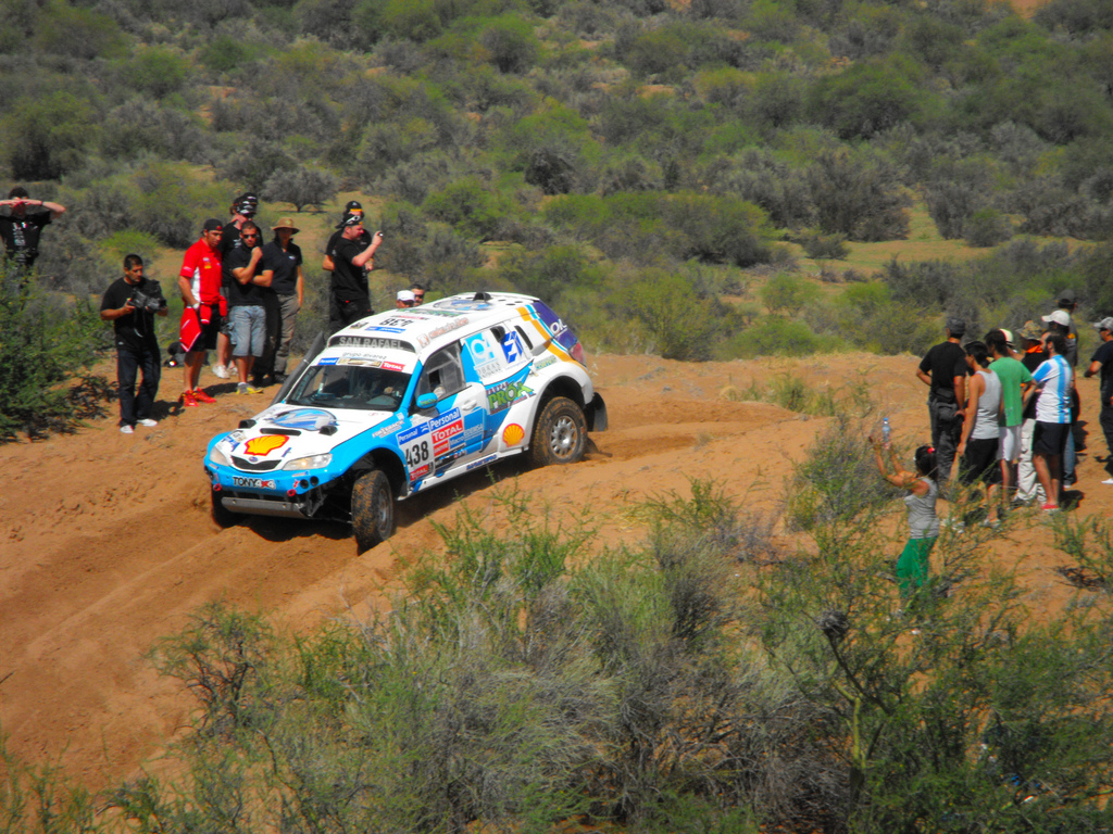 Subaru Forester of #438 team, with Lucio Ezequiel Alvarez and Antonio Walter Belarde